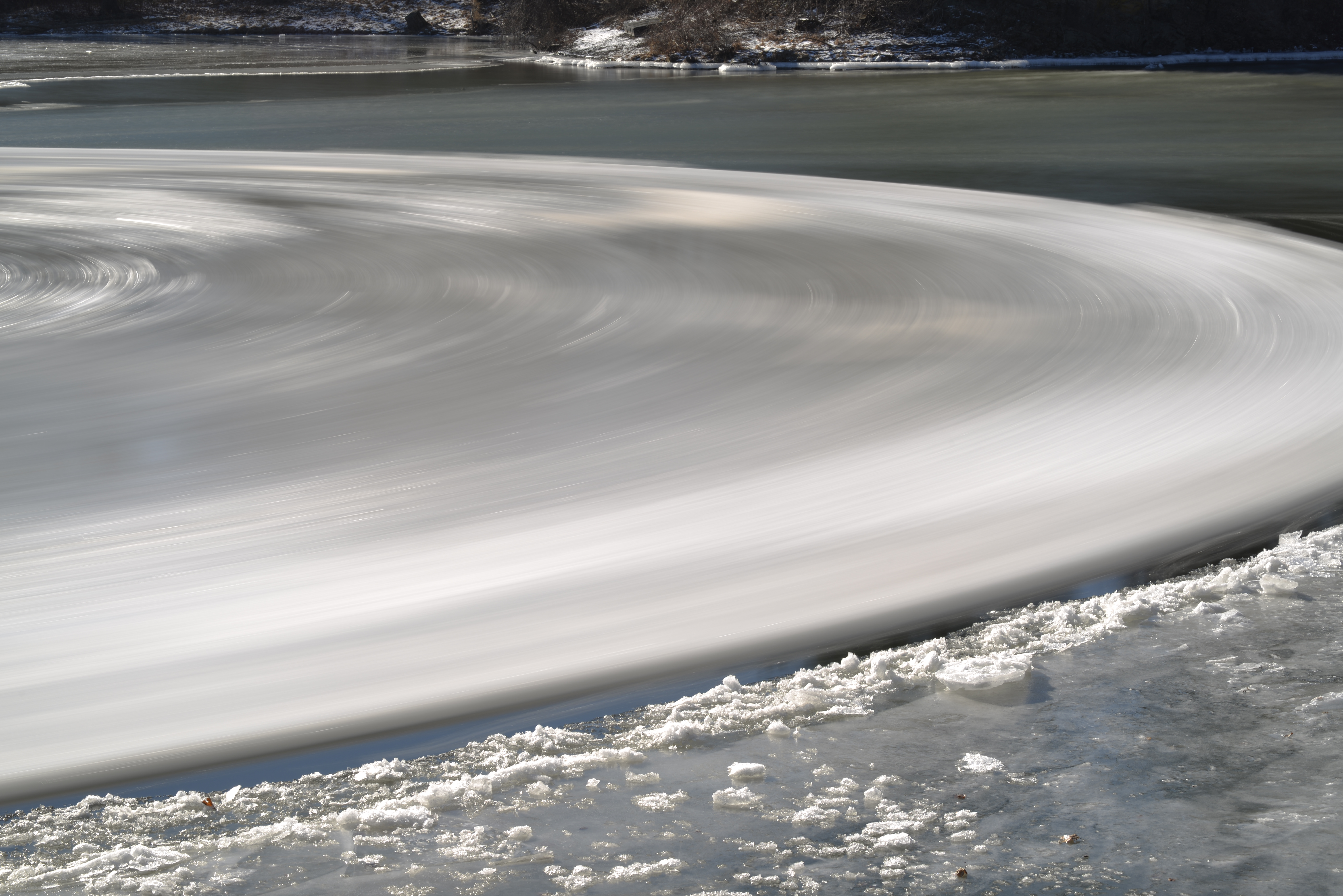 A long exposure of an ice circle in the Esopus Creek near Kingston, New York, USA, showing the rotation of the ice floe.